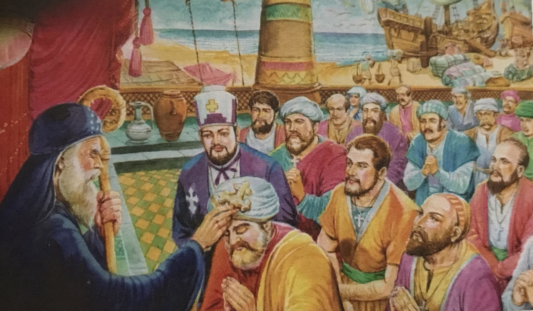 Thomas of Cana and the Knanaya received blessings from the Catholicos before departing for India.